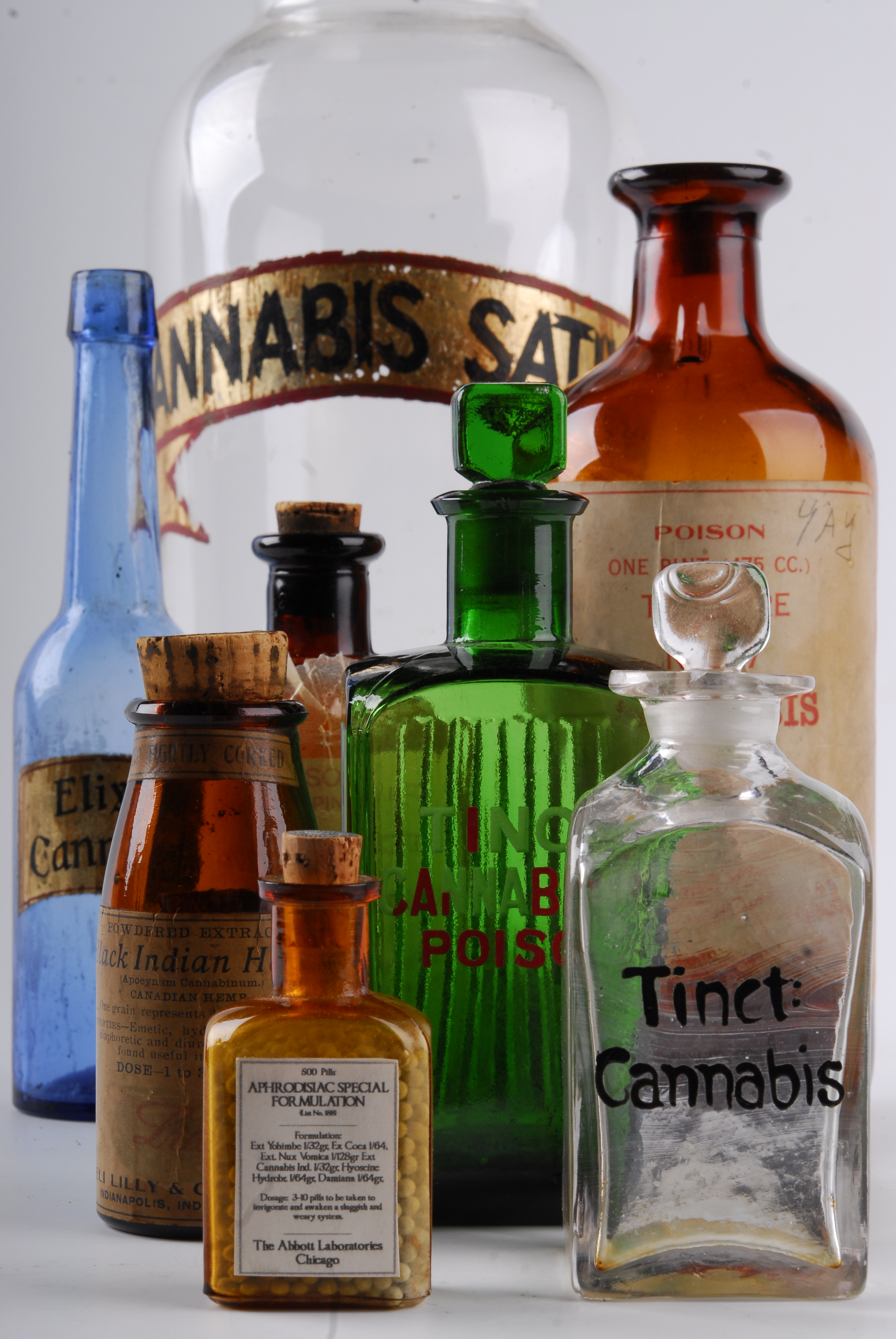 Nineteenth century medicine bottles in display in the Hash Marihuana & Hemp Museum in Amsterdam